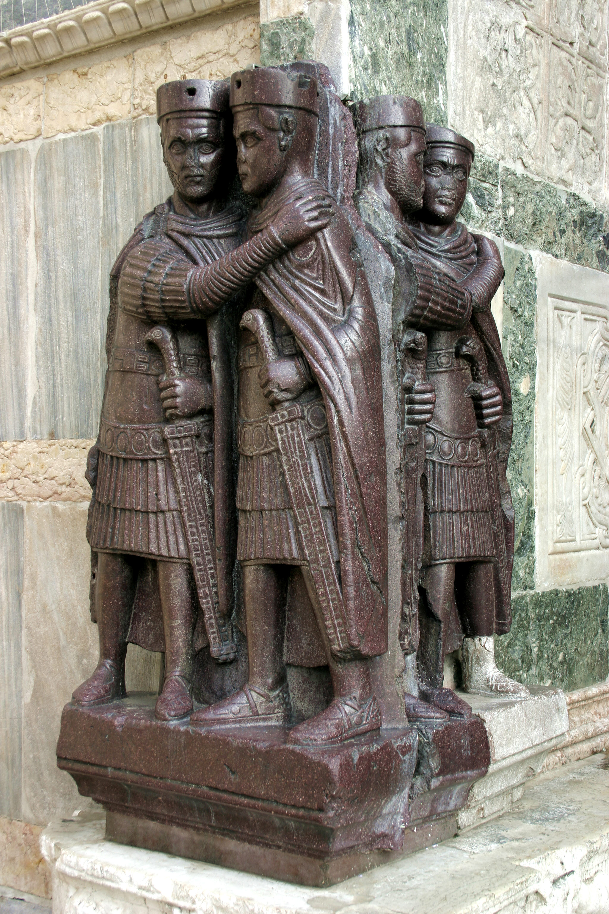 The tetrarchs (from the Greek words for "Four rules") were the four co-rulers that governed the Roman Empire as long as Diocletian's reform lasted. Here they were portraied embracing, in sign of harmony, in a porphyry sculpture dating from the 4th century, produced in Asia Minor, today on a corner of Saint Mark's in Venice, next to the "Porta della Carta".